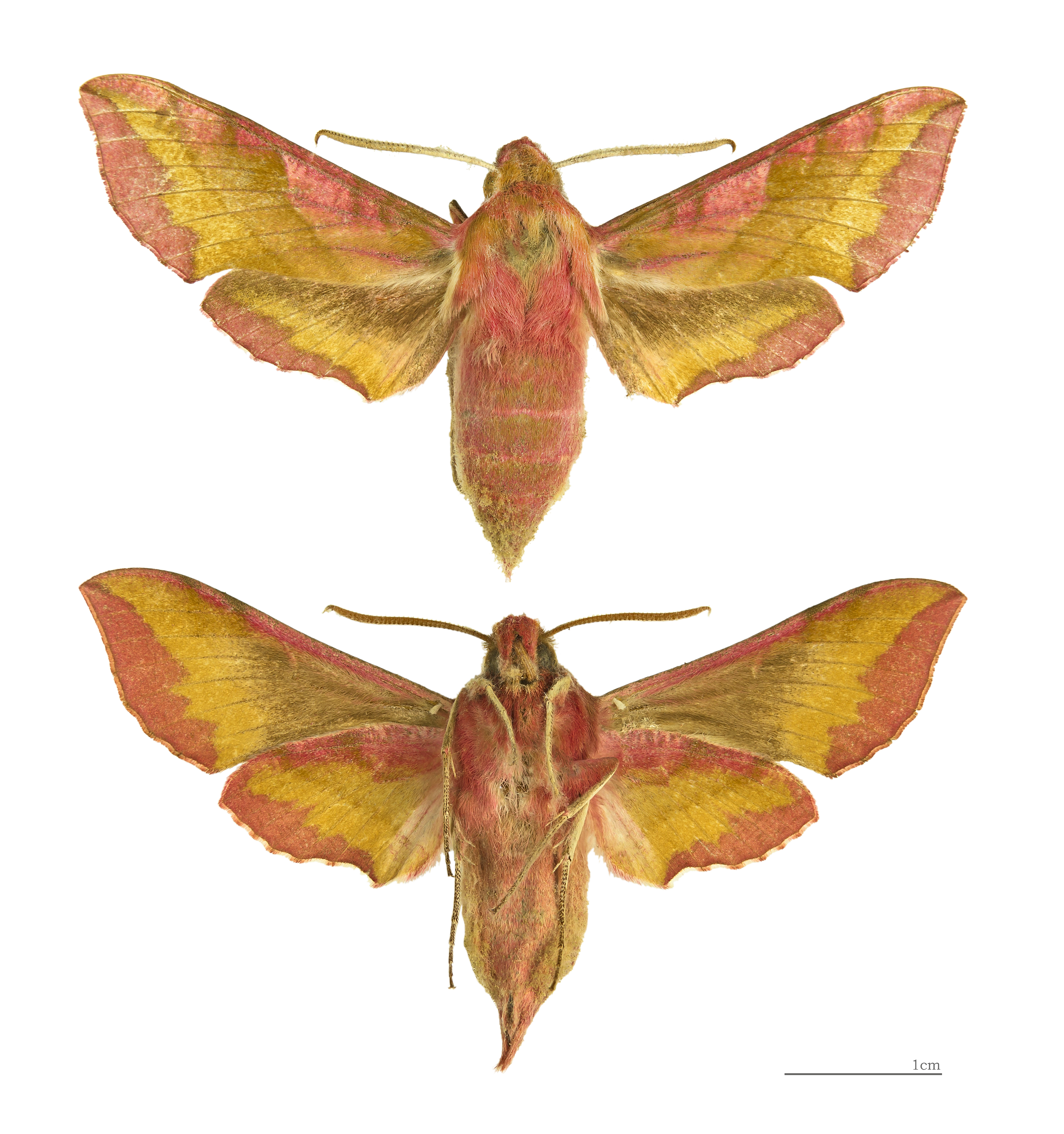 Small Elephant Hawk-moth - Two views of same specimen